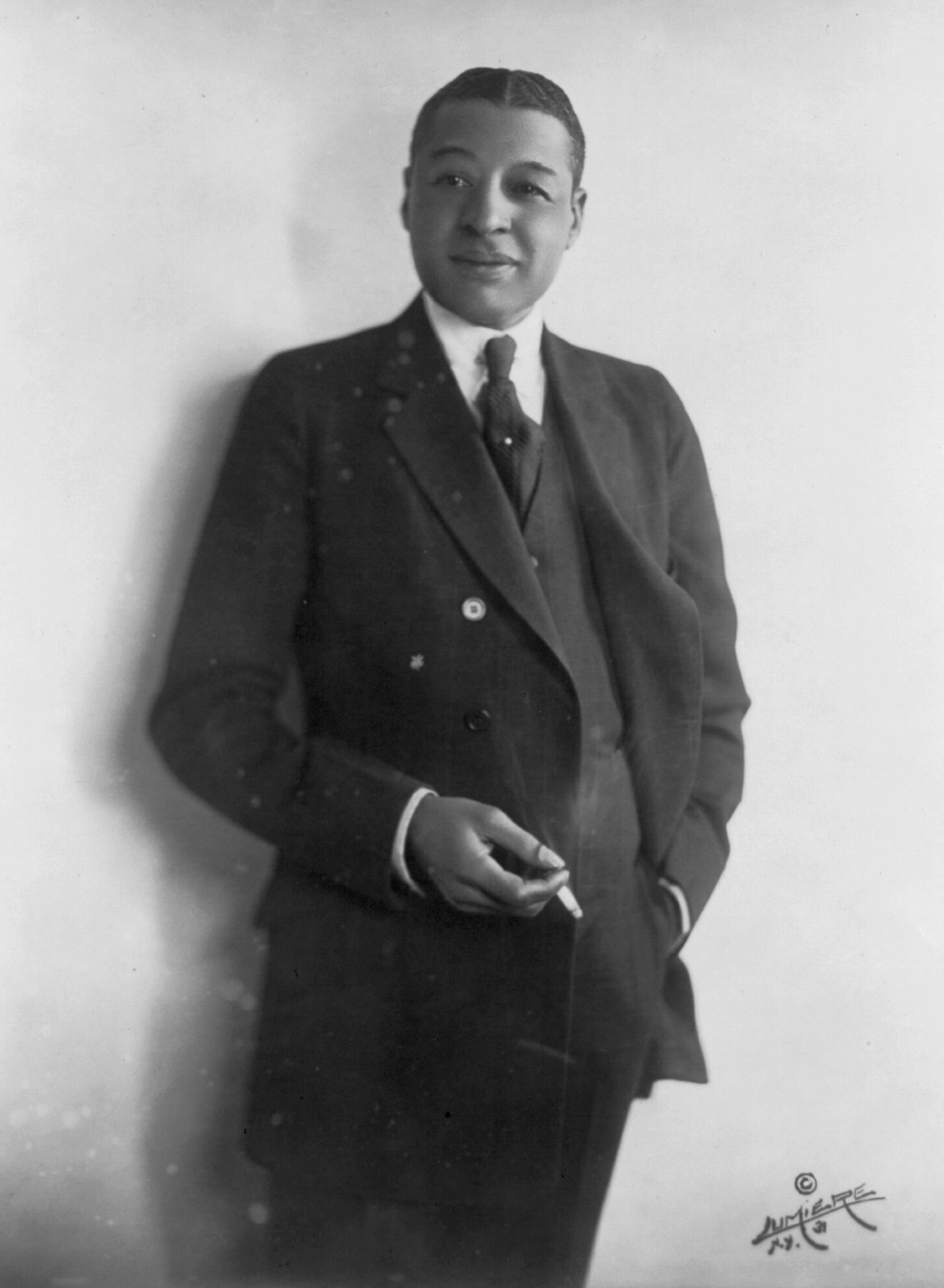 Photo portrait of Vaudeville star Bert Williams, seen standing, with a lit cigarette in right hand.